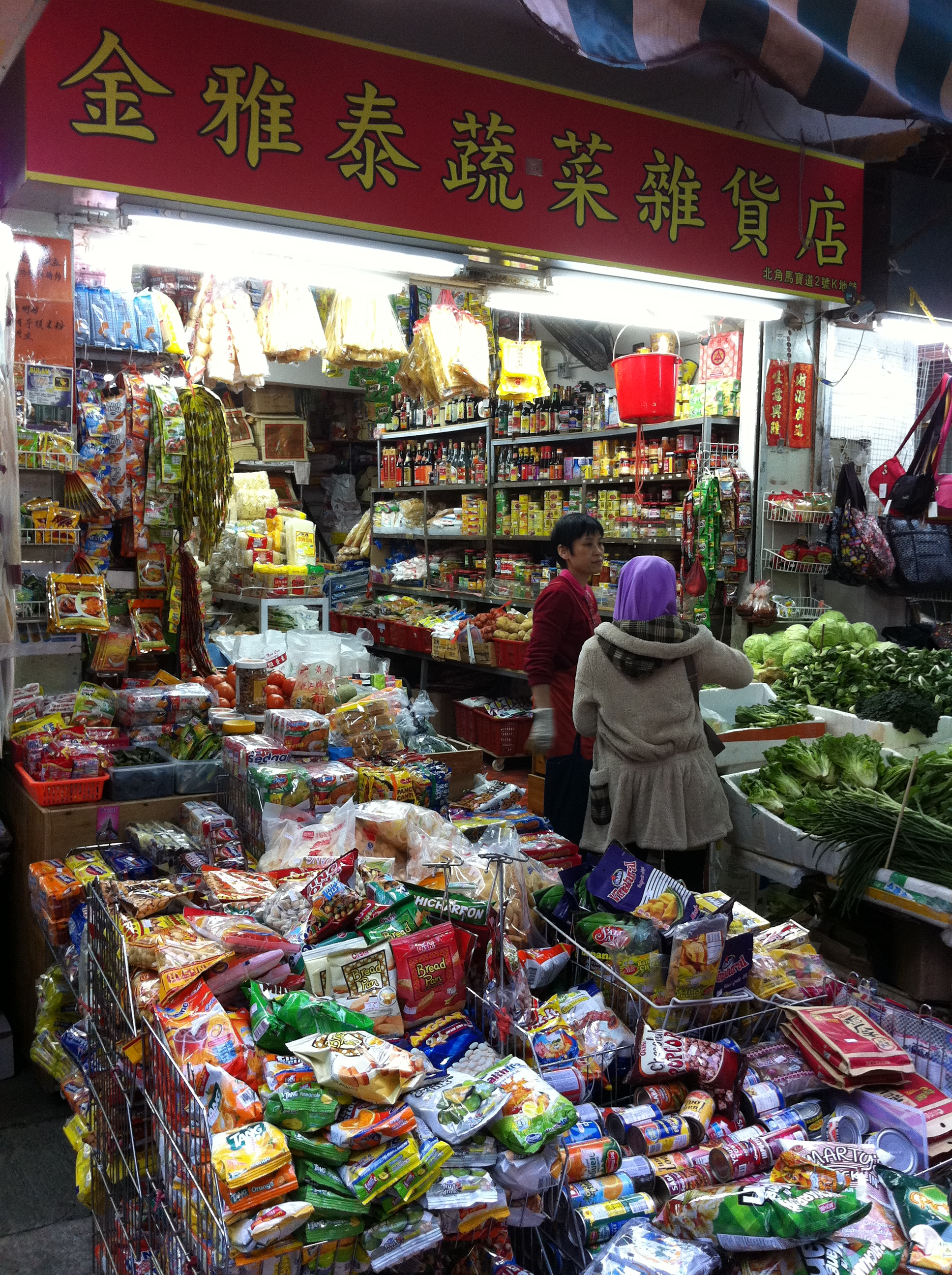 Shops in Marble Road, North Point, Hong Kong